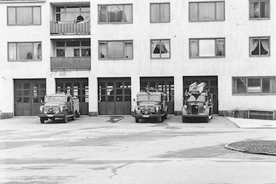 Old firestation in Umeå (1938–1980).